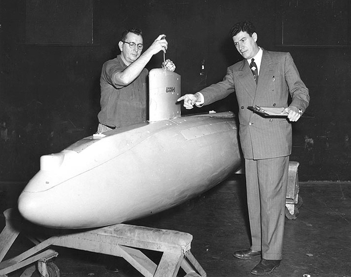 Supervisory Naval Architect Morton Gertler directs Instrument Maker Carson W. Caudle in preparing a model of the submarine for further tests at the David Taylor Model Basin, Carderock, Maryland, 1 March 1956. "This new type of submarine hull design was selected from a systematic series of streamlined bodies developed by Mr. Gertler, who also supervised the thorough development testing program that resulted in the hull and appendages as they now exist on the submarine Albacore." (quoted from the original picture caption).